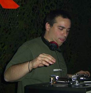 DJ Lenny Dee am 28.12.2002 in Augsburg. Uploaded by User:MarkGGN.